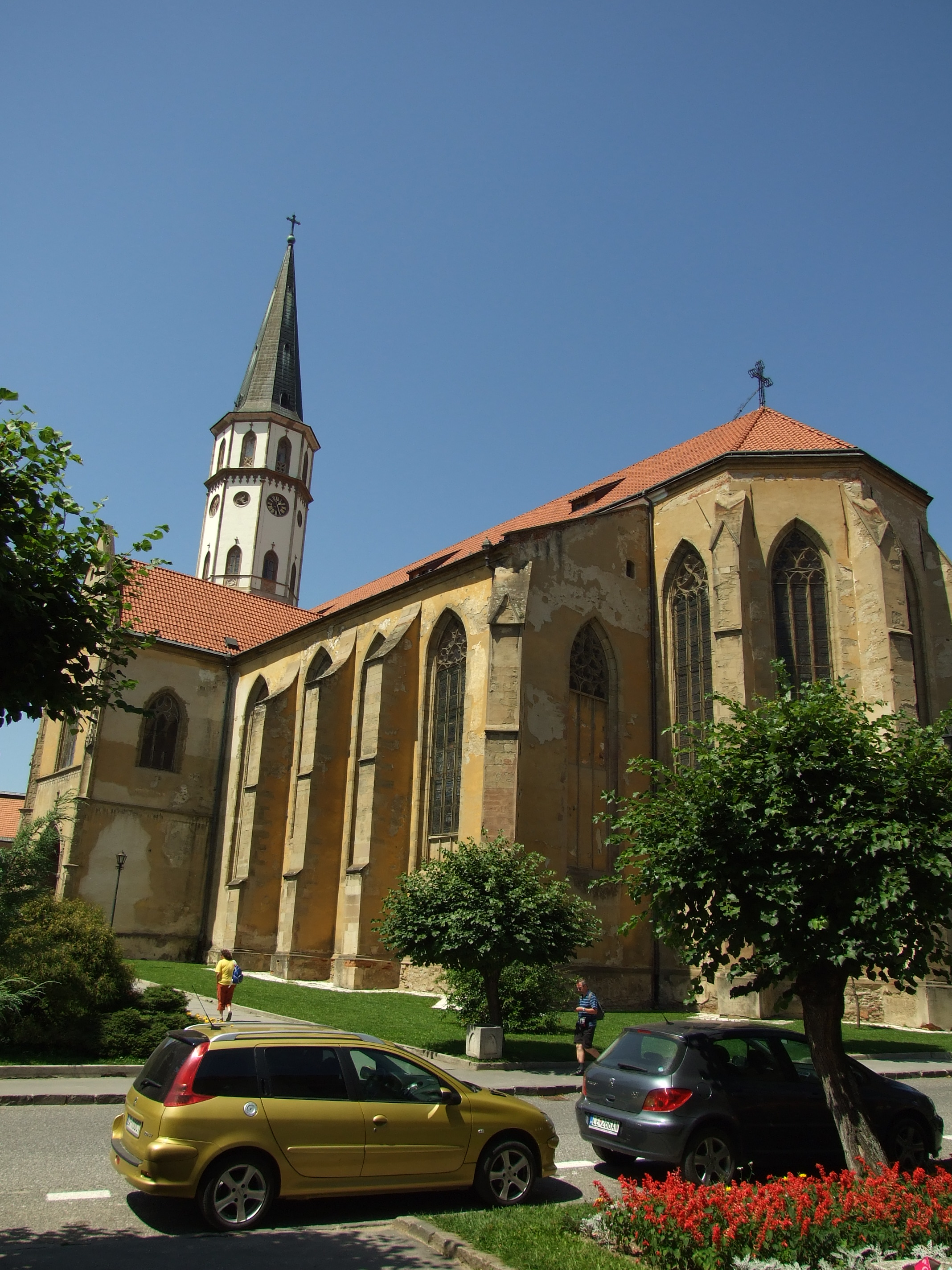 Church in Levoča town centre, Prešov Region, SKhelp